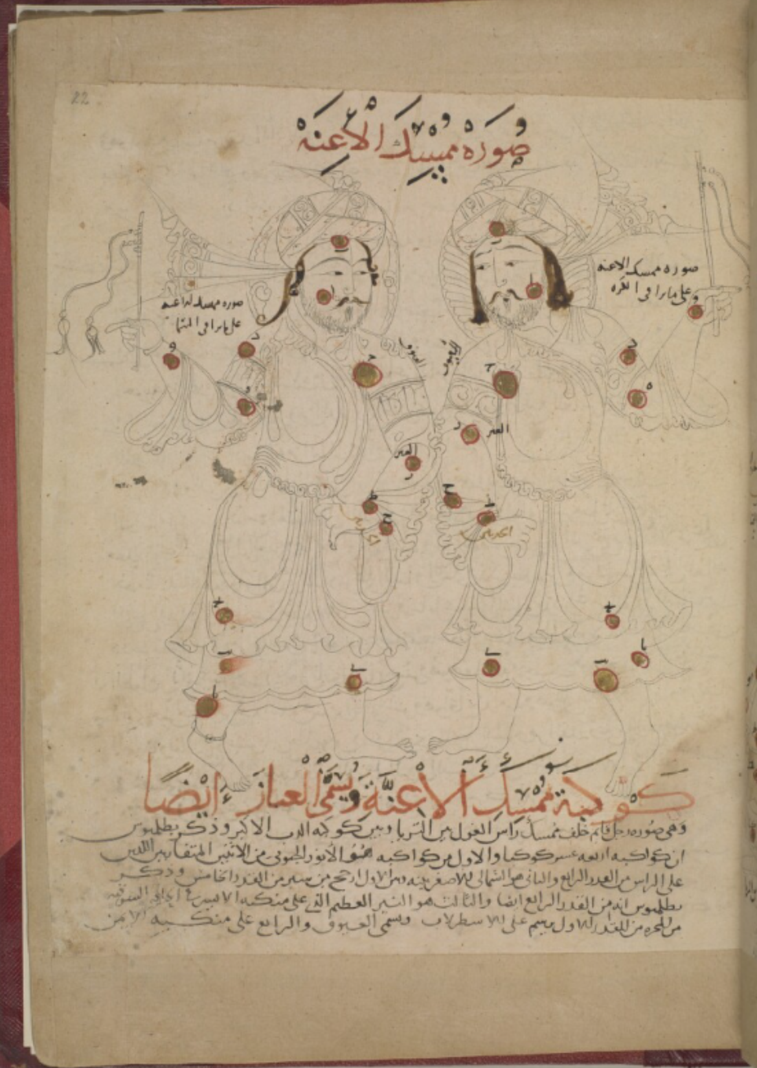 Page of an Arabic manuscript of the Book of Fixed Stars by al-Sufi showing the constellation of Auriga